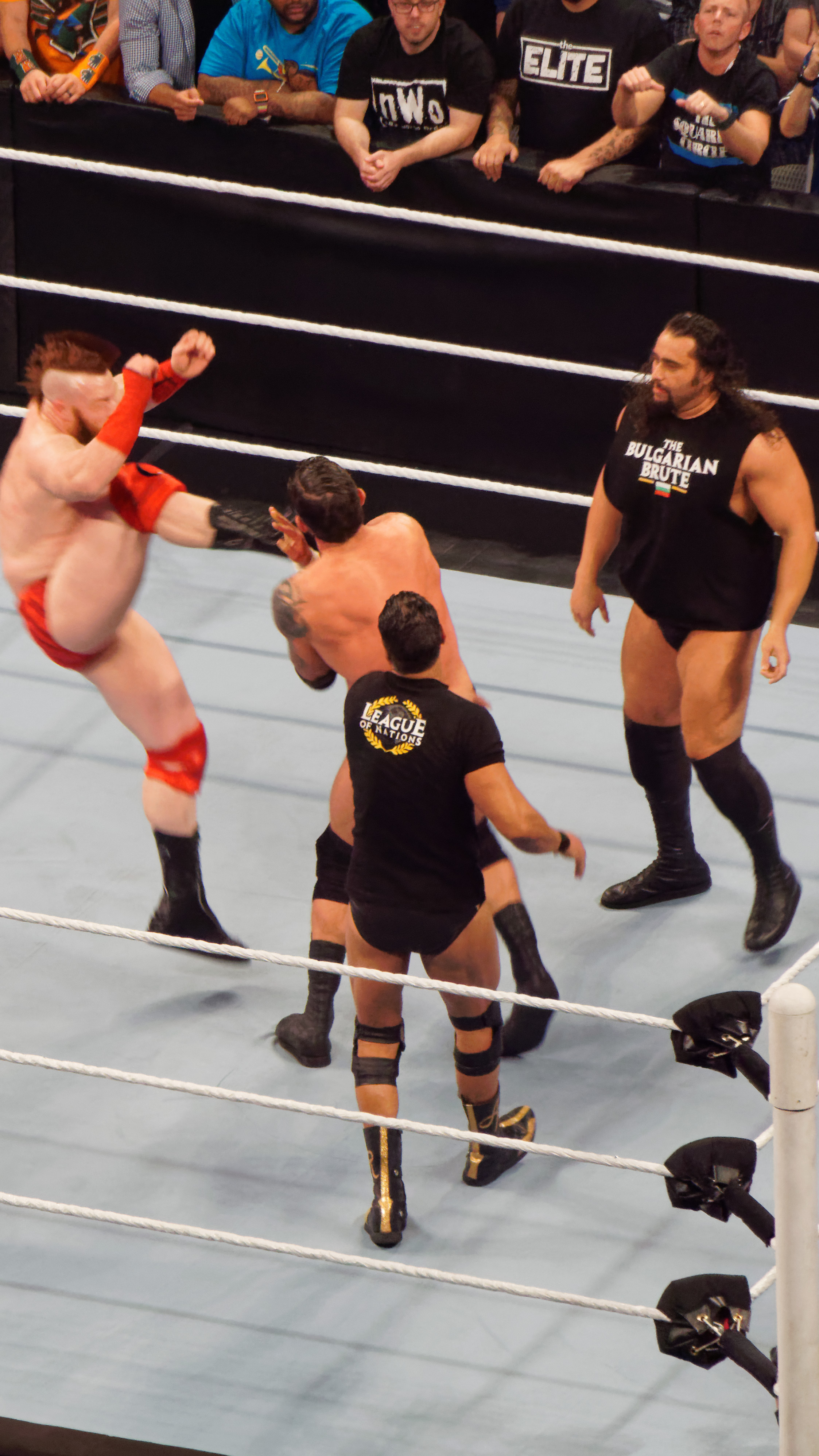 The raw after WrestleMania 32 Big E (c) & Kofi Kingston (c) def. (pin) King Barrett & Sheamus (in 08:45) For : WWE Tag Team Championship